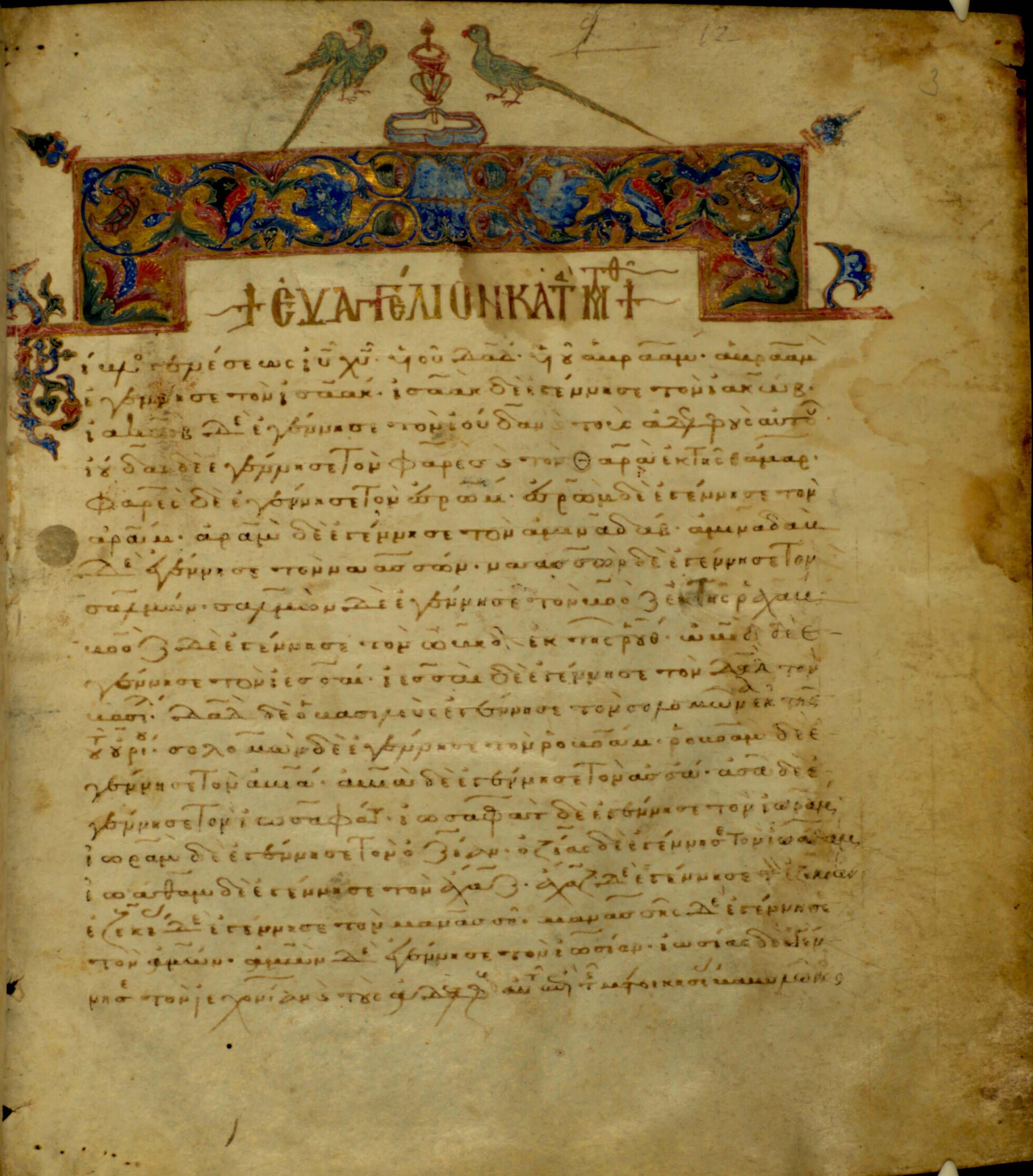 Folio 3 recto with the beginning of the Gospel of Matthew